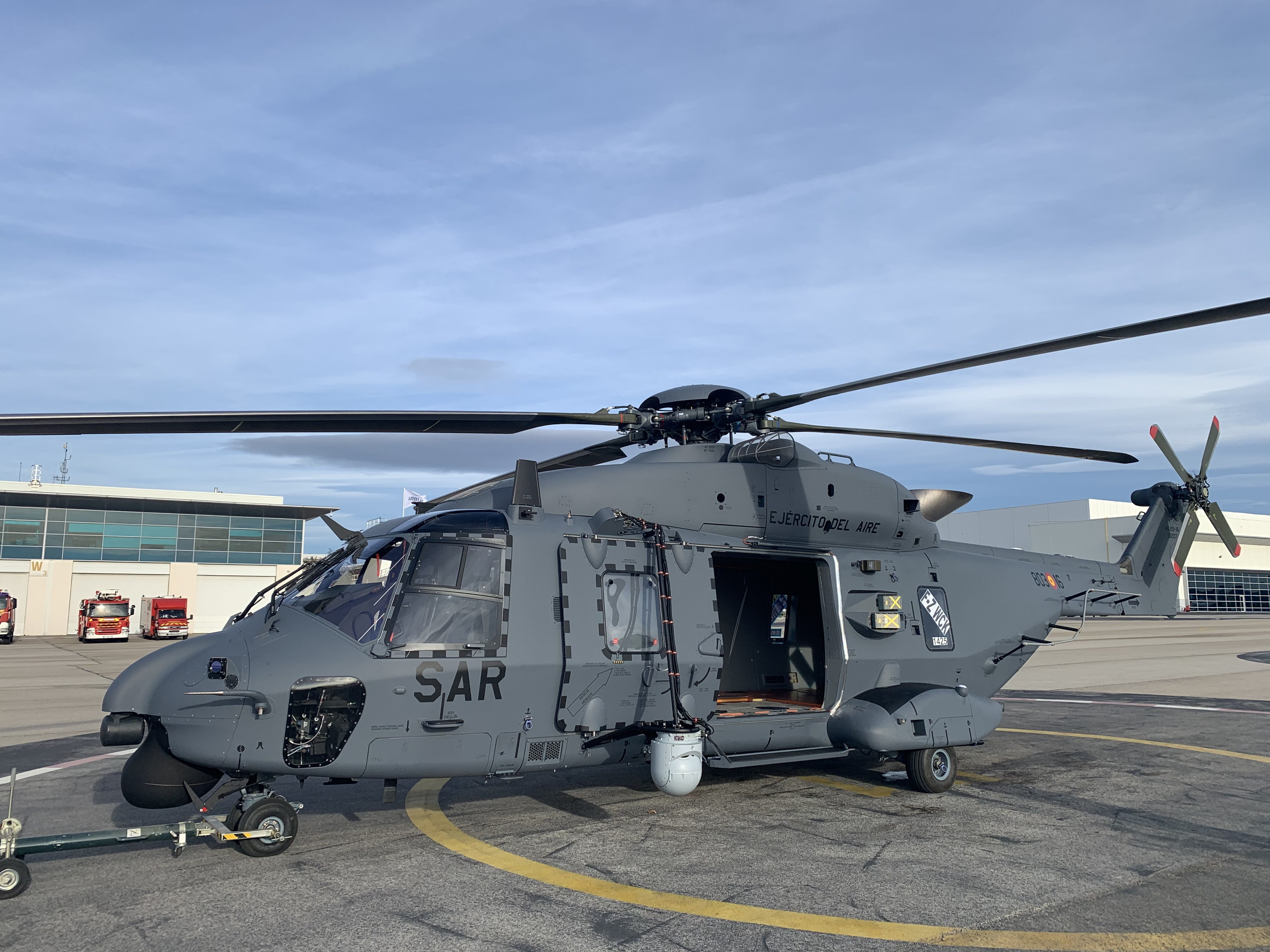 Spanish Air Force NH90 STD2 helicopter before flight test in Airbus Helicopters (Marignane)